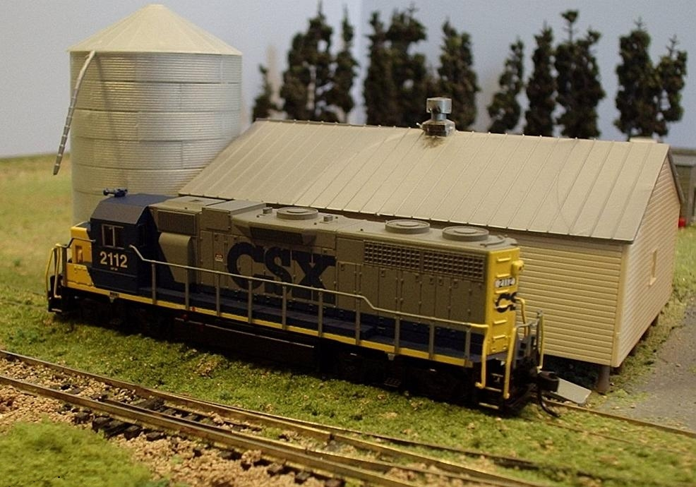 Photo by William Grimes